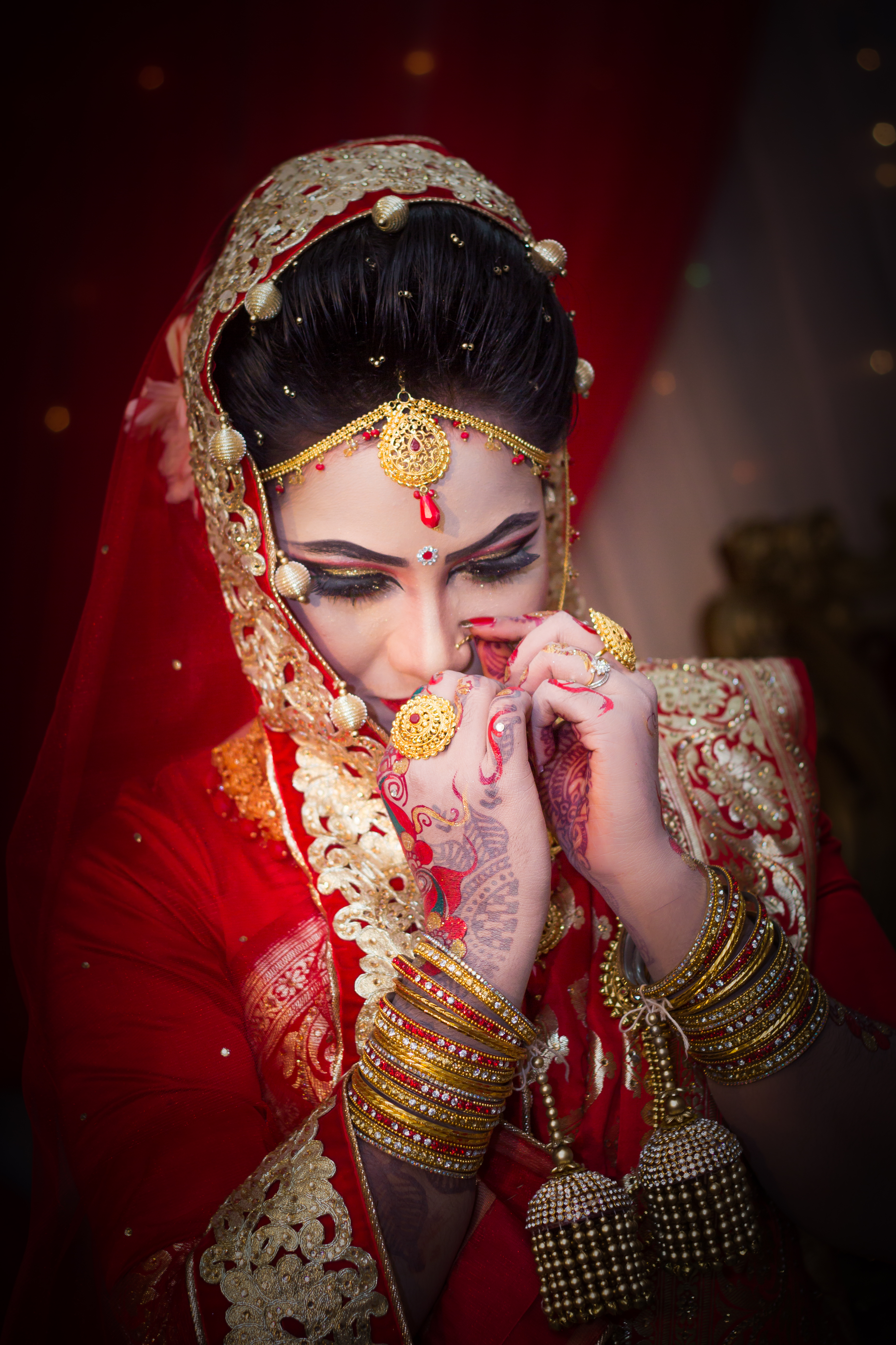 Bridal Portrait